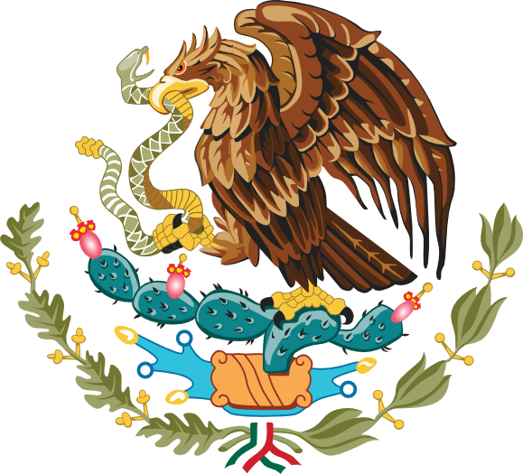 Official version of the Coat of Arms of the United Mexican States or Mexico, adopted September 16th, 1968 by Decree (Published August 17th 1968). The previous version of the coat of arms was a little different. It was redesigned to be even more resplendent due to the upcoming Mexico City 1968 Olympic Games.